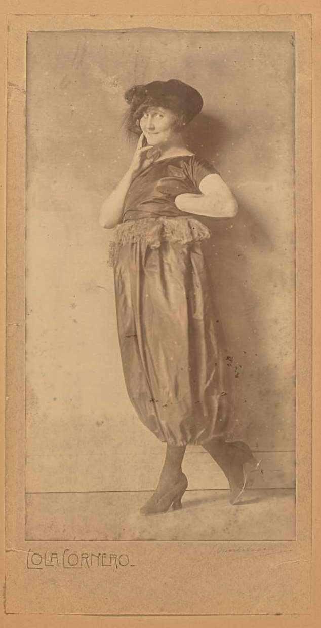 Photograph of Lola Cornero, by Jacob Merkelbach. Text: Atelier Merkelbach, Gebouw Hirsch & Cie. [Amsterdam]